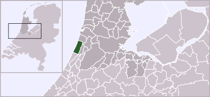 Locator map of Dutch municipalities in Noord-Holland (LocatieZandvoort.png)